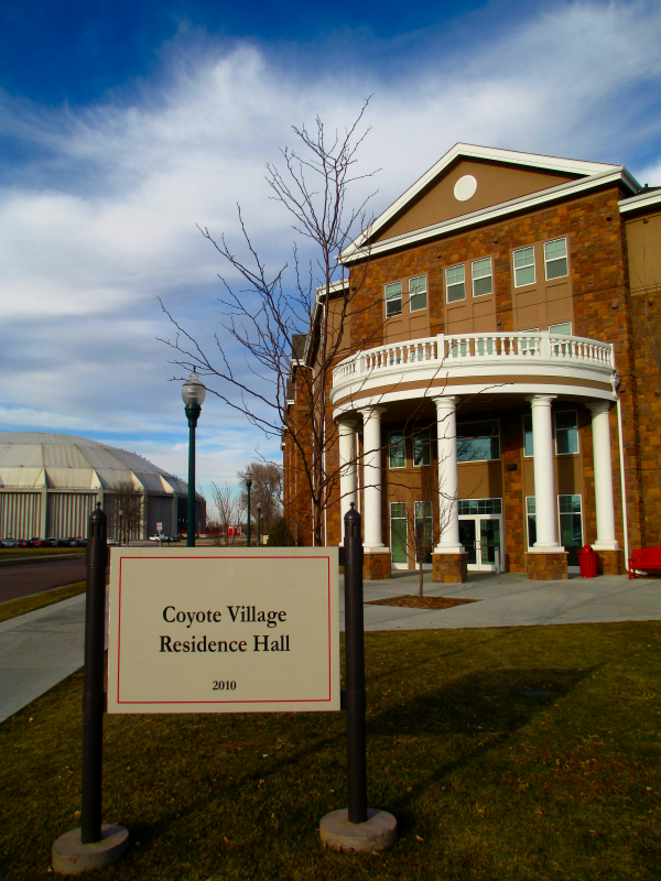 University of South Dakota residence hall Coyote Village and sports facility DakotaDome. North facing shot of the most western portion of the residence hall.